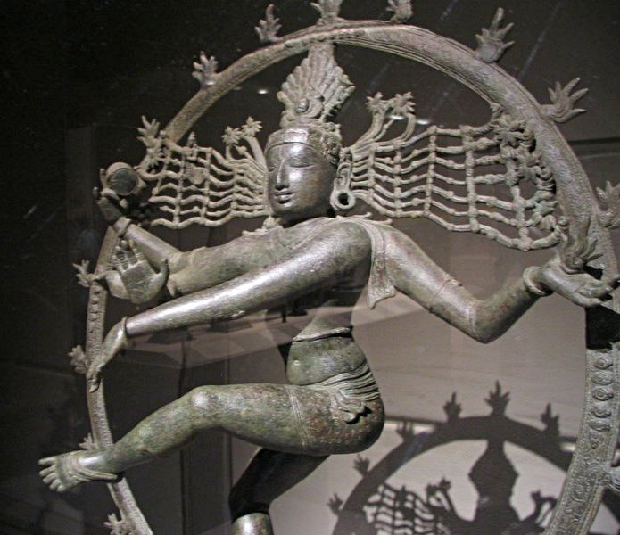 Chola Bronze statue of Nataraja at the Met of New York. Photographed by Mallela on July 1, 2005.